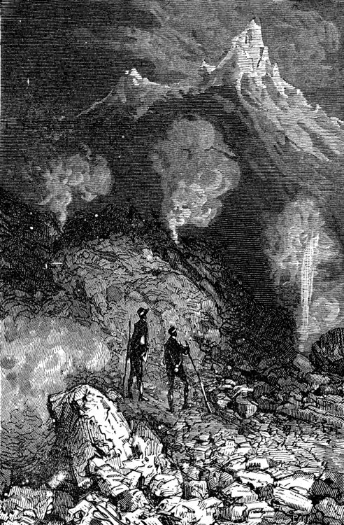 An ilustration from the novel "Journey to the Center of the Earth" by Jules Verne painted by Édouard Riou.